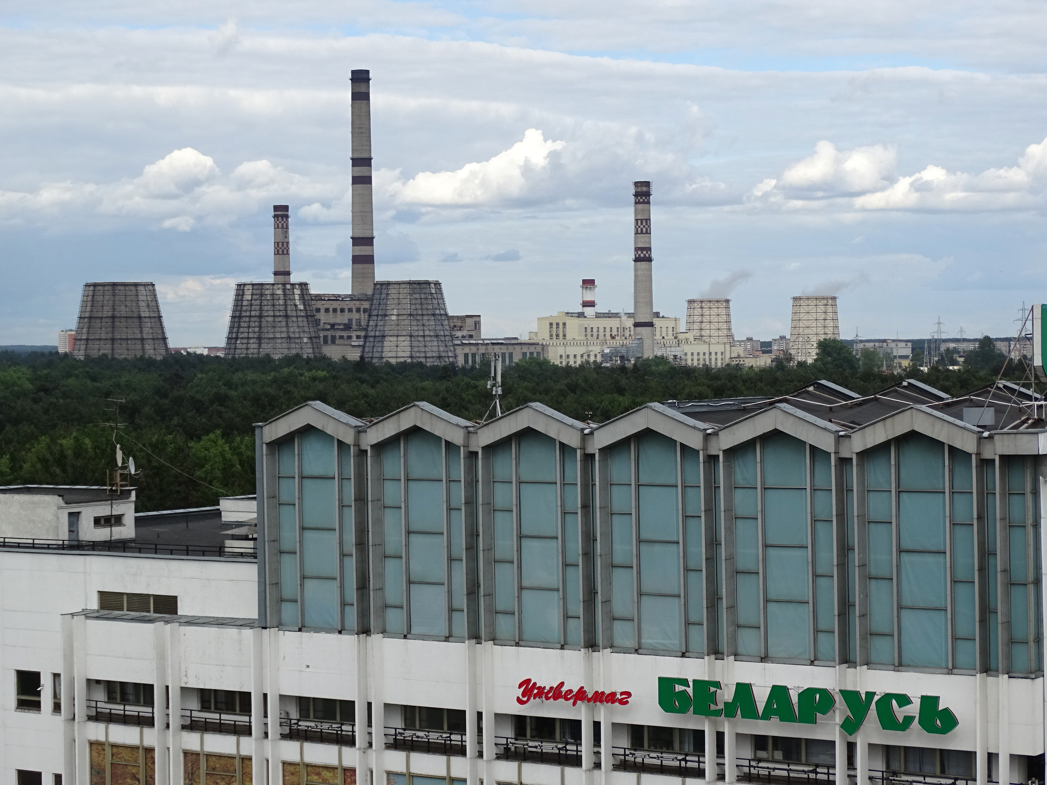 View toward Power Plant from 13th Floor of Turist Hotel - Minsk - Belarus